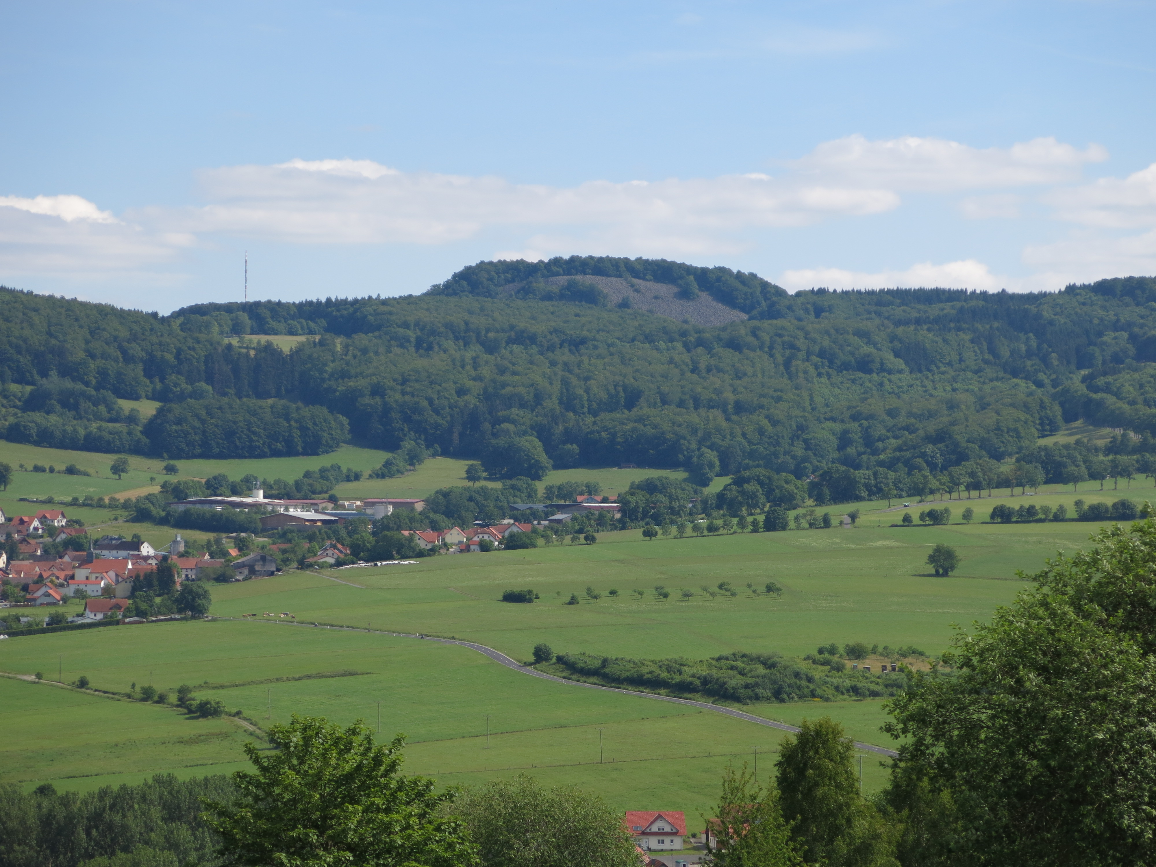 The Schafstein in the Rhön Mountains seen from north